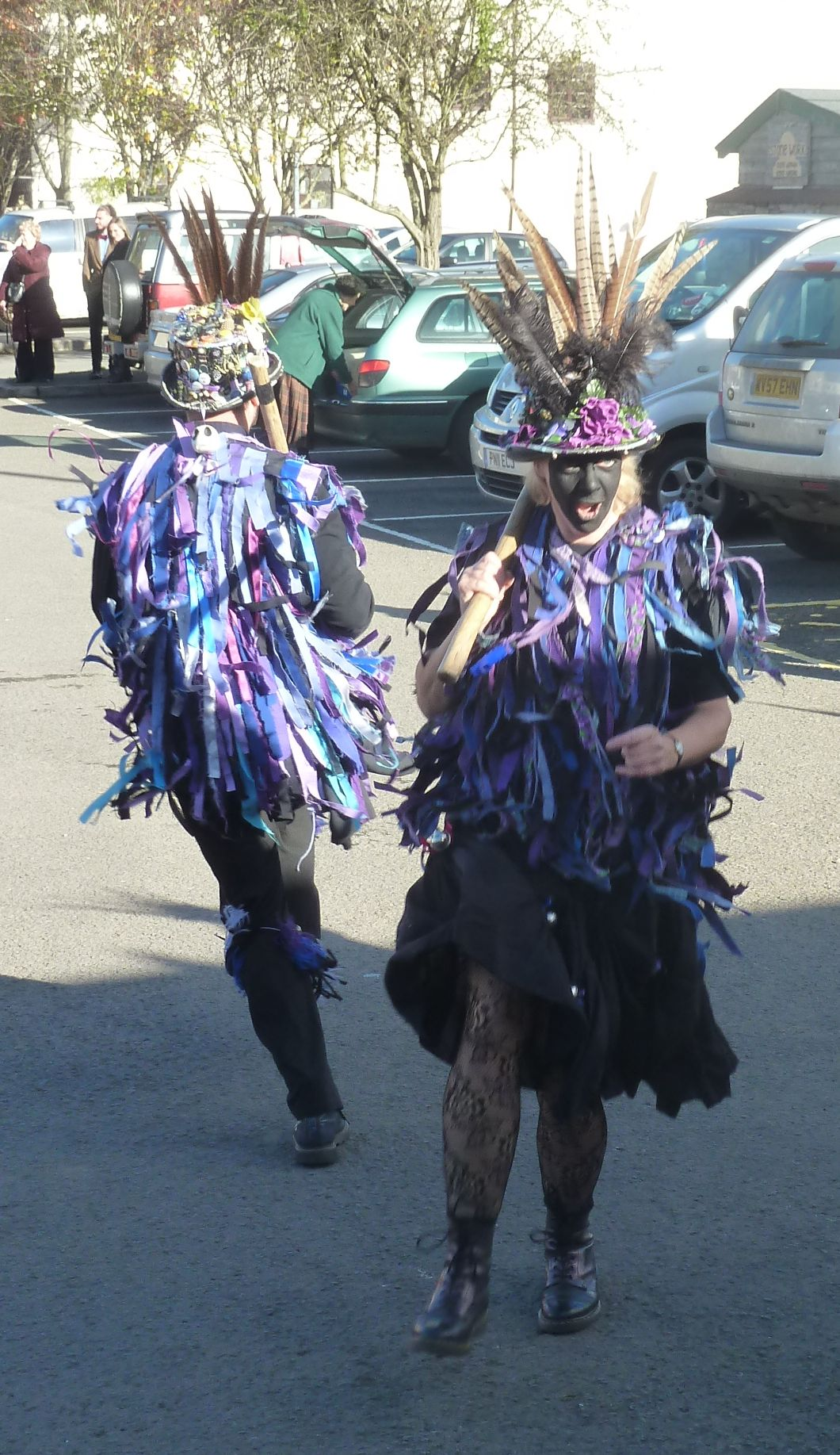 Welsh Juggalos with their traditional Insane Clown face paint, 'whooping' at the Chepstow Casglu y Jwgylio, November 2013